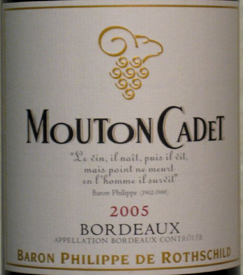 Château Mouton Cadet 2005 label showing PdR poem